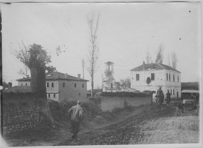 Village of Vrbeni or Itea, Greece